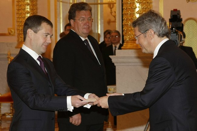 THE KREMLIN, MOSCOW. Presentation by foreign ambassadors of their letters of credence. Dmitry Medvedev receives a letter of credence from the Dutch Ambassador Ronald Keller.